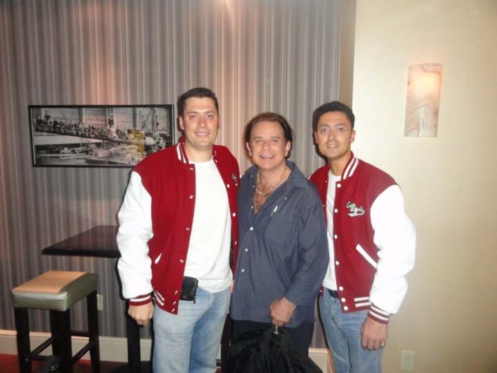 The American singer Lugee Alfredo Giovanni Sacco (Lou Christie) with the Carrasco brothers, members of the doo wop band The Earth Angels. The picture was taken during their participation in the doo wop festival celebrated at the Benedum Center in Pittsburgh, Pennsylvania in May 2010.